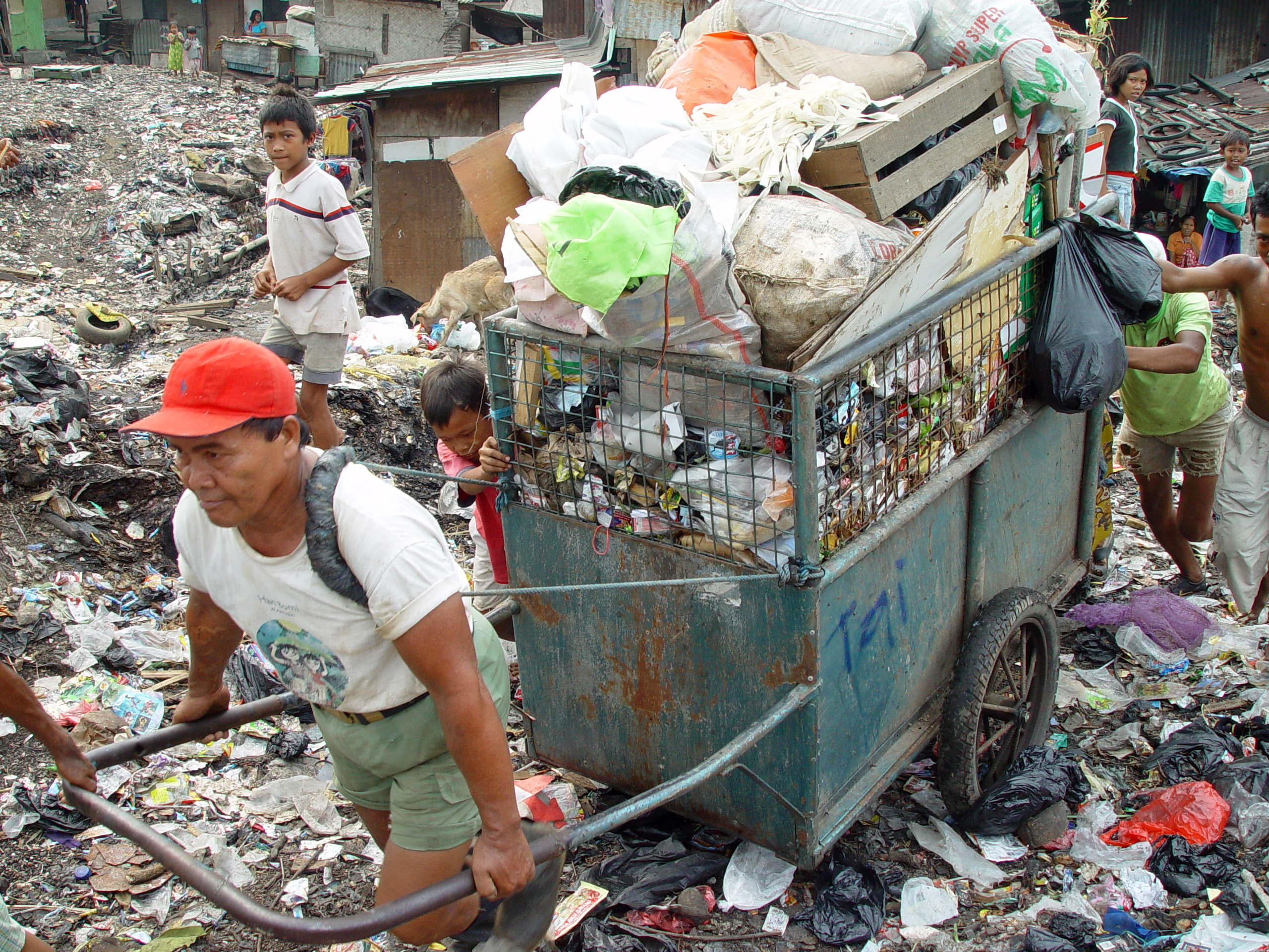 Slum life, Jakarta Indonesia.